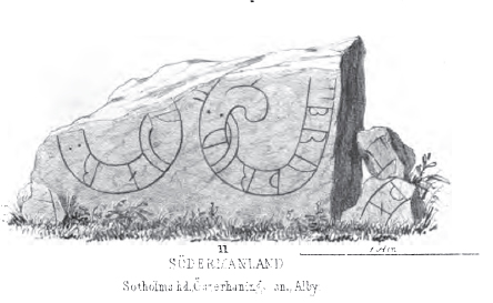 The runestone Sö 259. The inscription reads ...kar : (l)... ... bruþru : [...þa...]. In English "... ... ... brother ..."